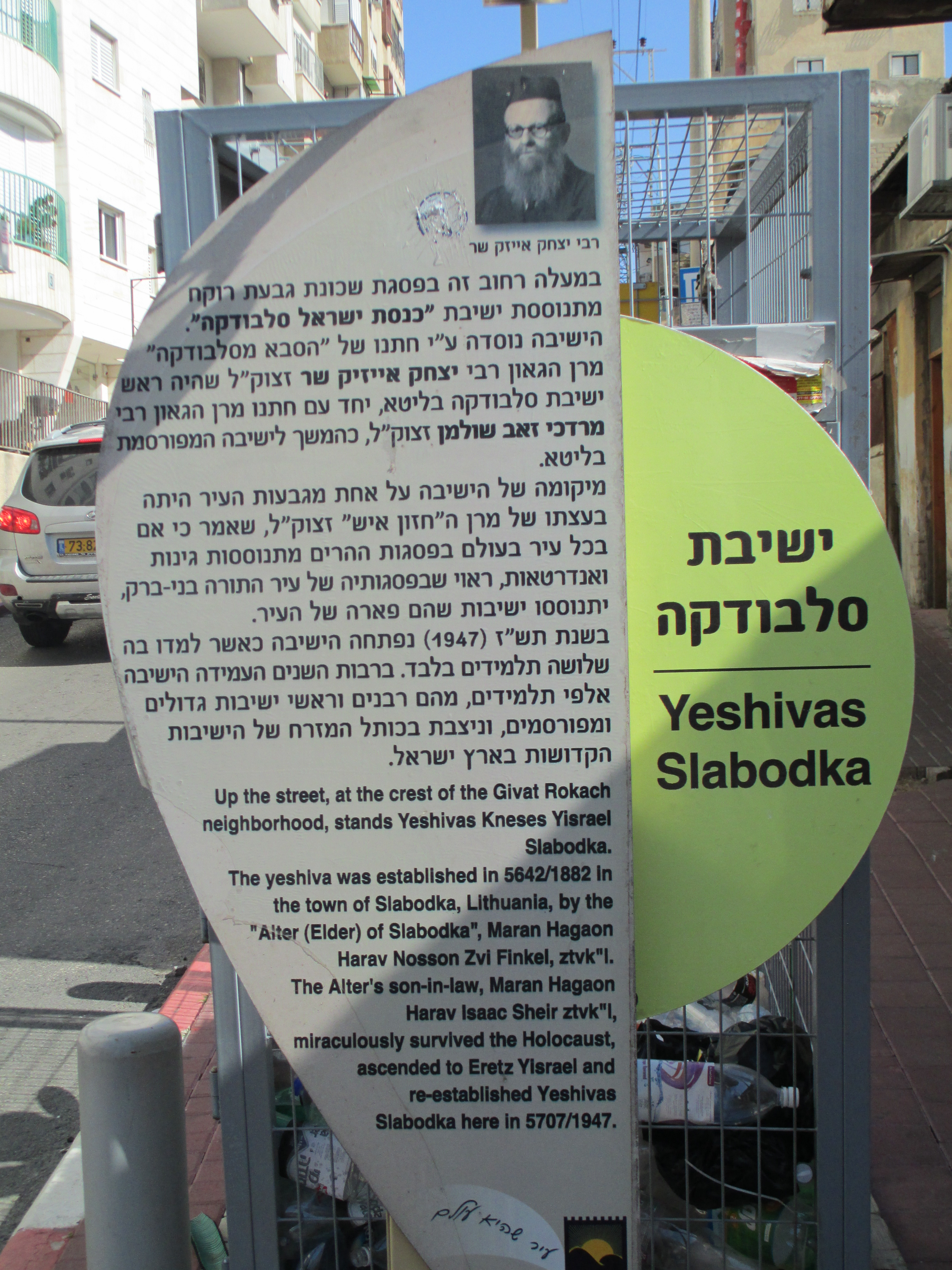 memorial plaque to slabodka yeshiva in bnei brak לוחית זיכרון לישיבת סלבודקה ברח' בן פתחיה פינת רבי עקיבא